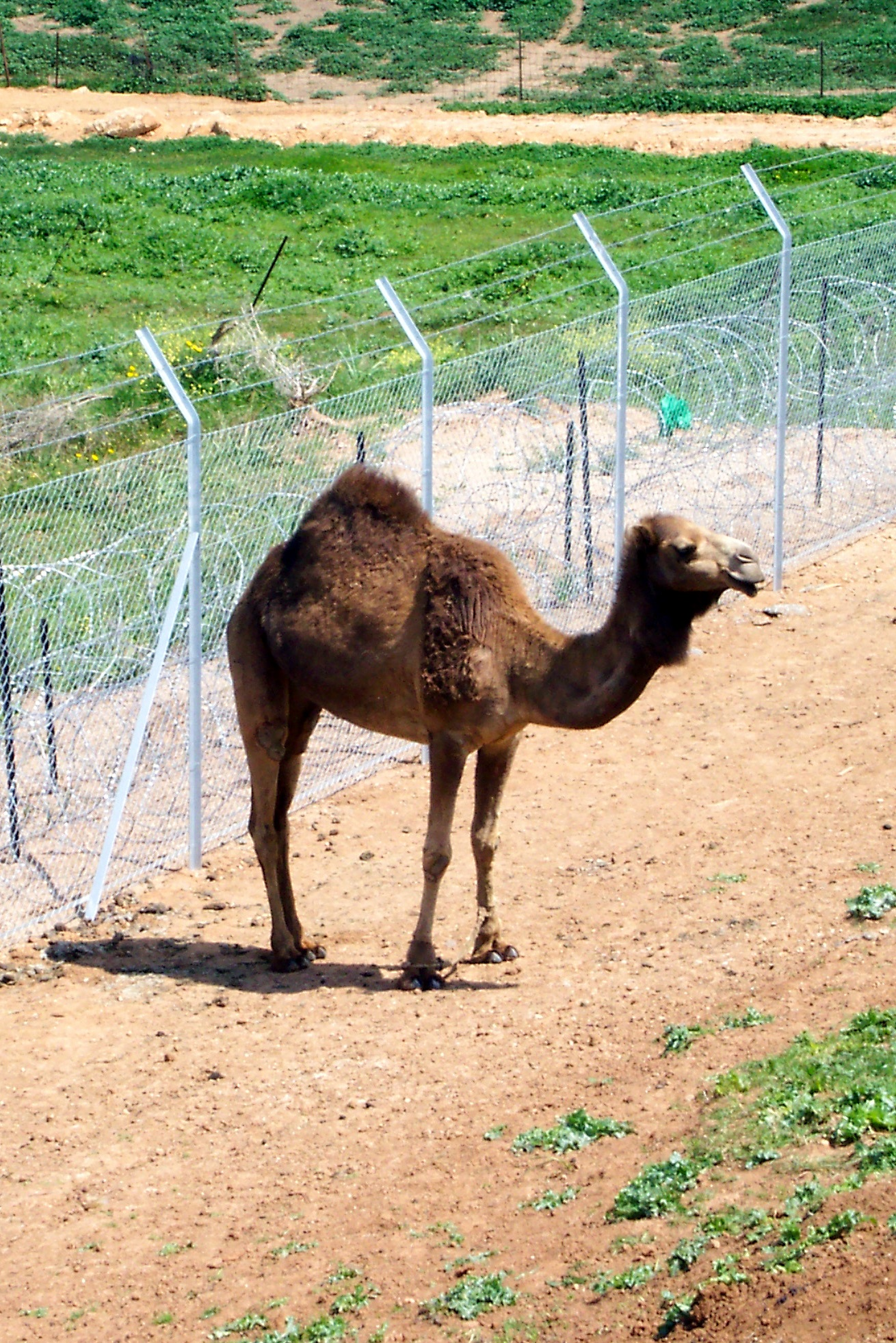 Picture of a camel